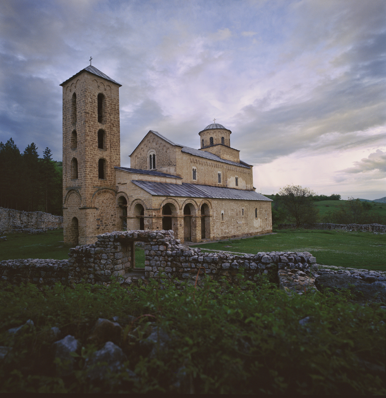 Stari Ras and Sopocani